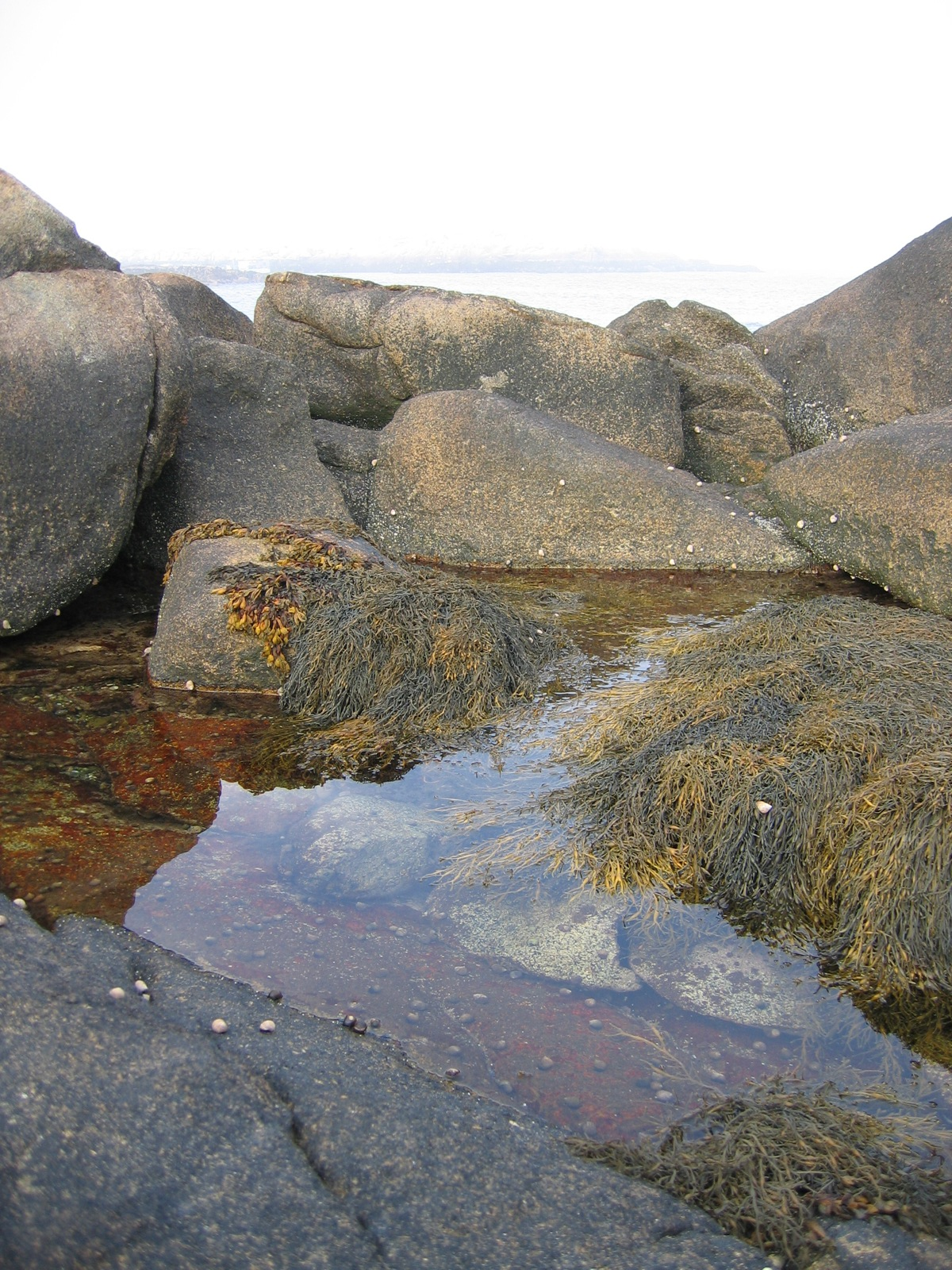 Tidal pool, Matinicus Island, Maine. Ascophyllum nodosum, some Fucus (left) and crustal red algae (Hildenbrandia)